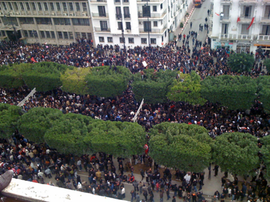 Original caption: Protesters march on Avenue Habib Bourguiba in downtown Tunis, angry over unemployment, rising prices and corruption, 14 Jan 2011. (VOA Photo/L. Bryant)